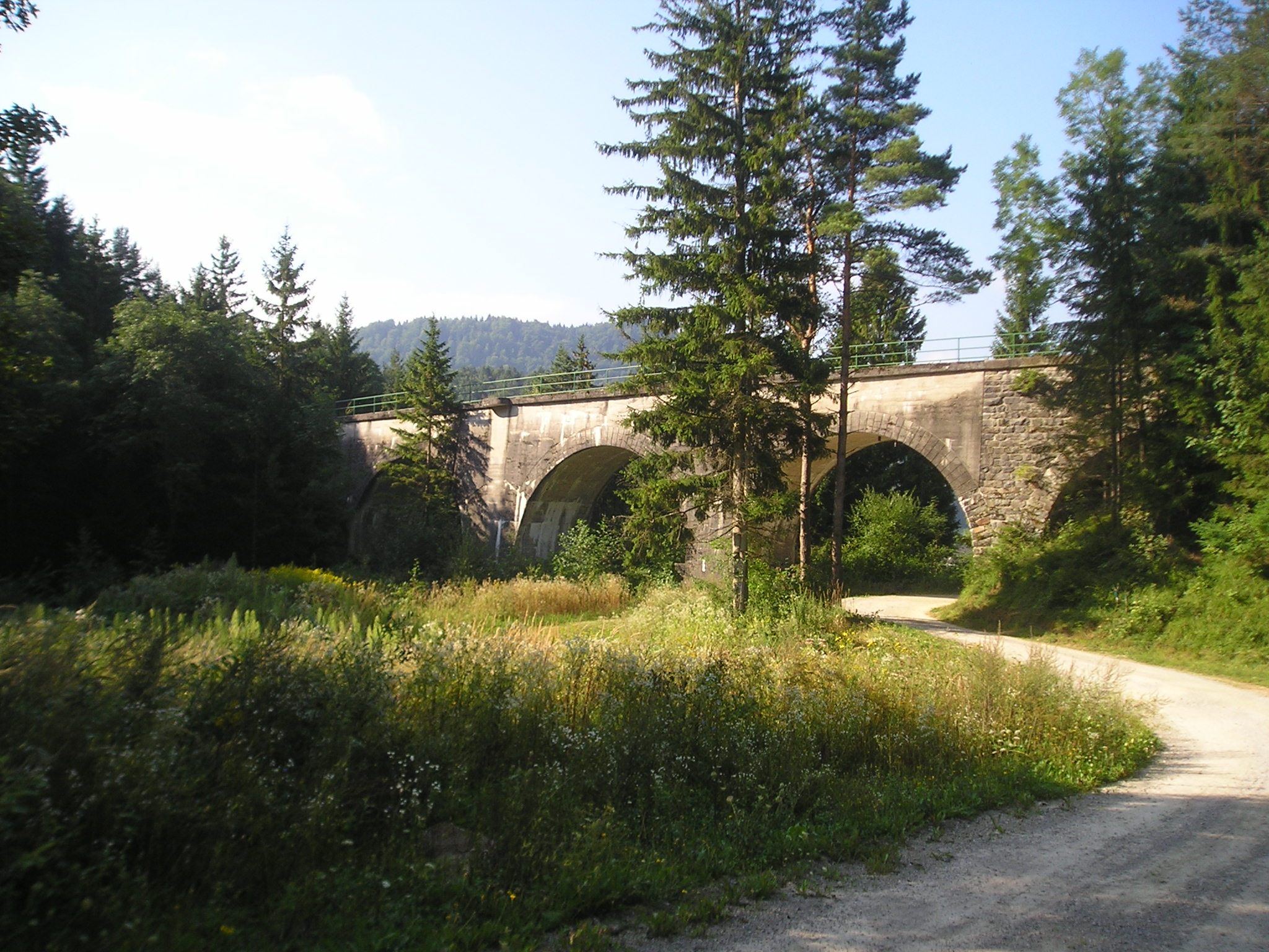 Former railway viaduct (Lavanttalbahn) Gornji Dolič near the village of the same name, view from east. Today it is used for local road traffic.